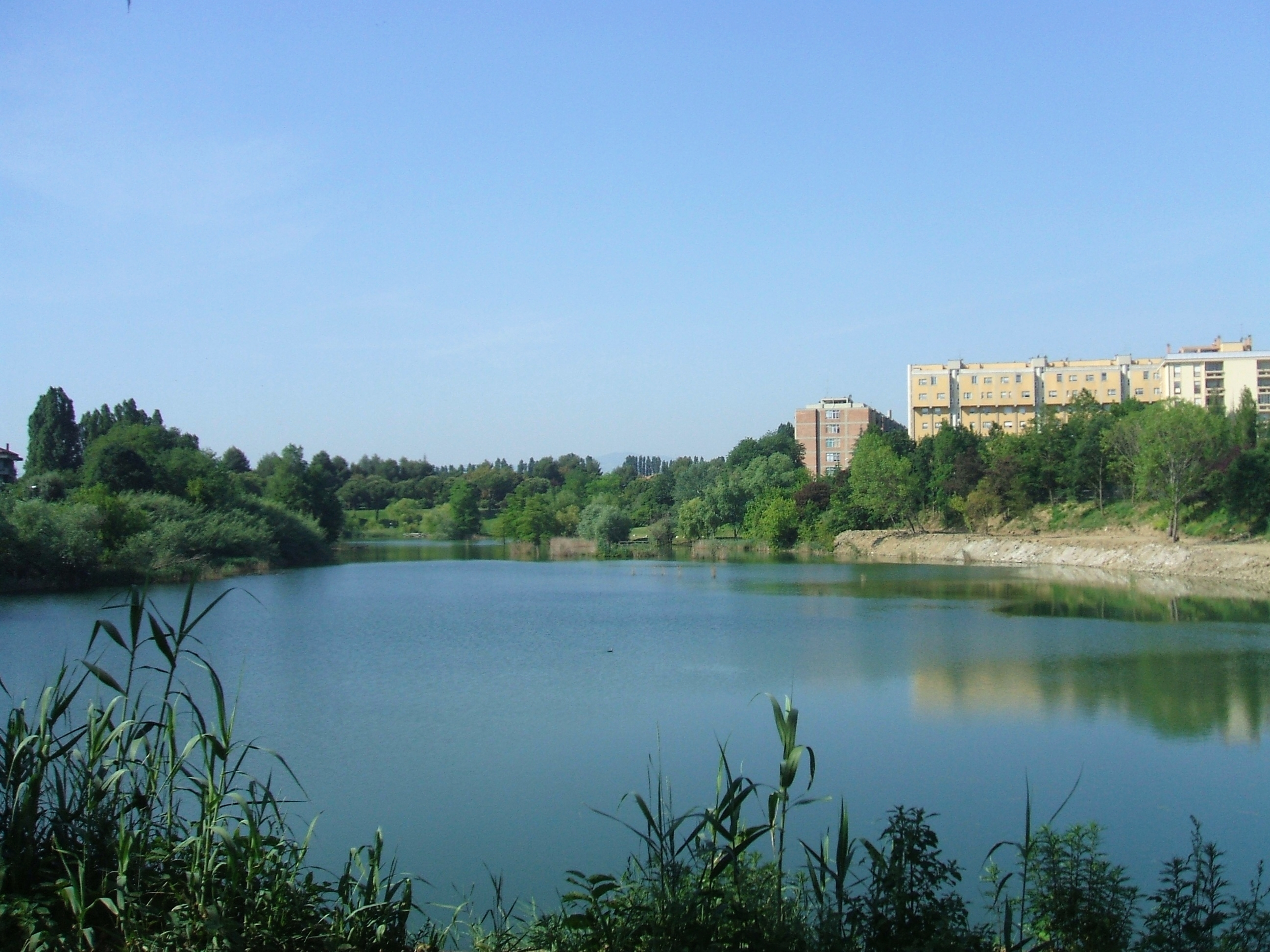 John Paulus II's Park in Rimini